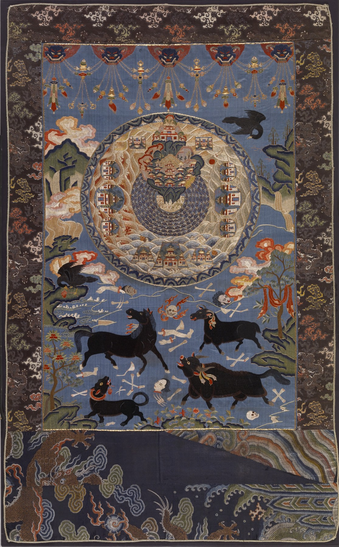 The setting, with beasts and floating skulls in a desolate landscape, focuses the mind of the meditator (or the initiate in a ceremony) upon mortality, and hence upon the eternal. Within the circle is a view of our world, seen from above (a sacred, imaginary conception, but based upon reality). The four continents are represented by groups of three buildings. India, the southern continent, appears on the left. Between the continents and Mt. Meru are seven concentric oceans and mountain ranges. Mt. Meru rises in the center. One heaven stands on its slopes, a second lies at its summit, and four float above it.